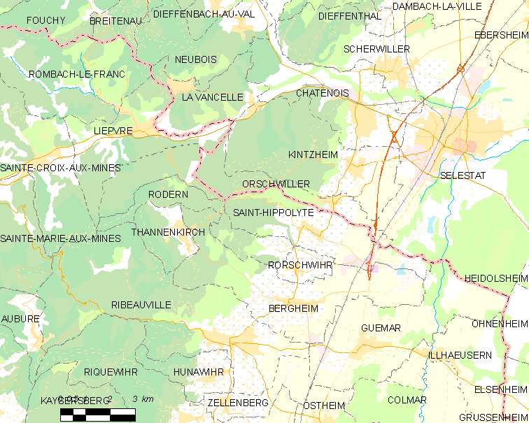 Map of French municipality